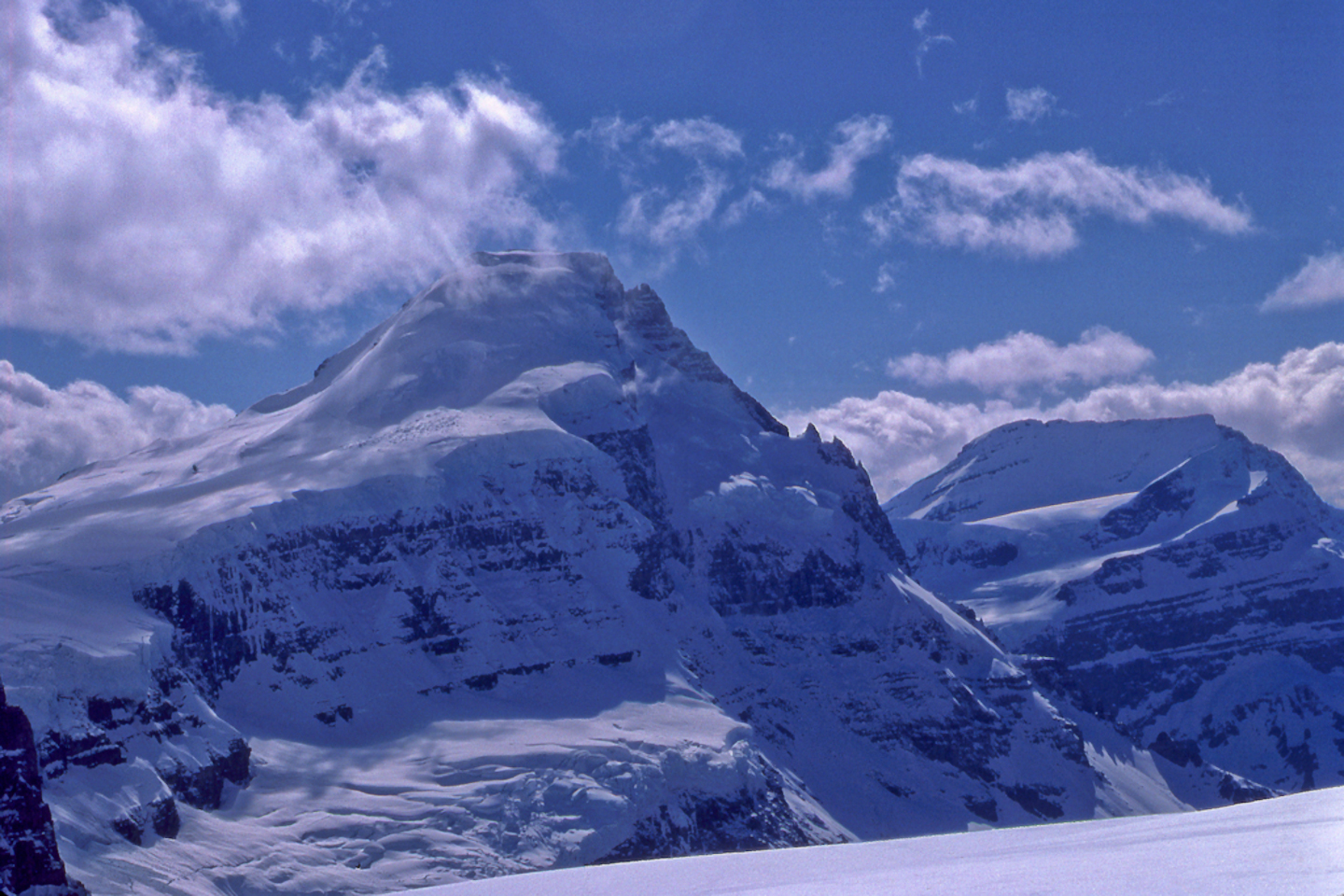 Mounts Columbia and King Edward (l-r), showing the 5.5 km (3.4 mi) distance between them, from a Columbia Icefield bivy for the NW peaks (the Twins, the Stutfields, Mt. Kitchener and Snow Dome.